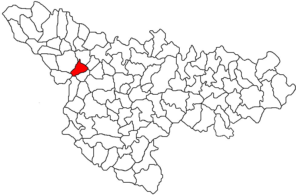 Locator map of the commune of Iechea Mare, Timiș County, Romania